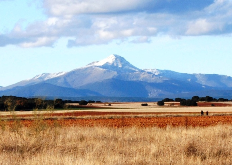 South face of Ocejón from Mohernando, Gudalajara, Spain.